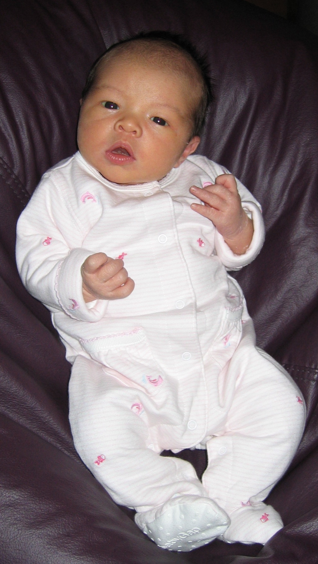 Anna at 11 days, 4 hours, 45 minutes: "Here is Anna relaxing on [a] bean bag chair."